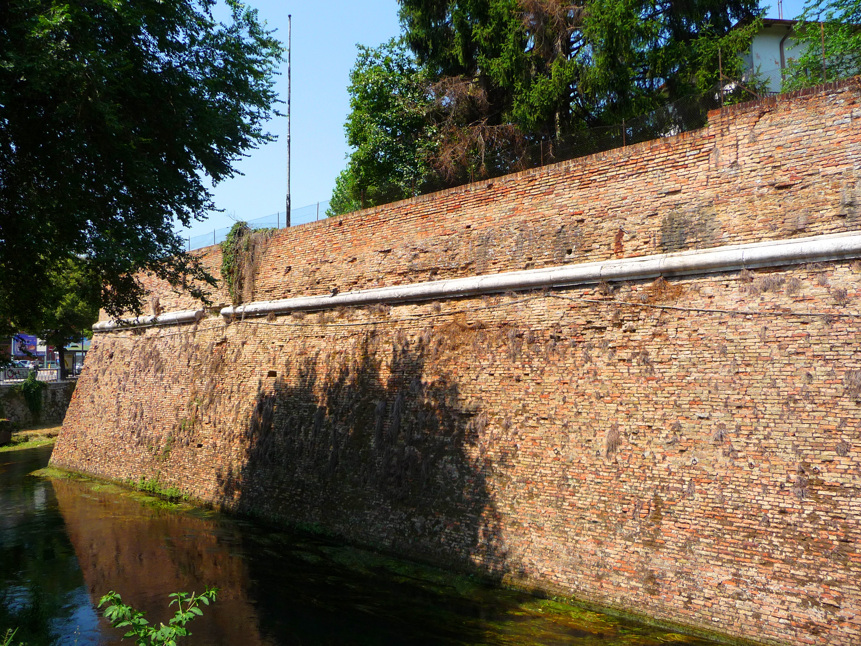 walls of Treviso (IT)